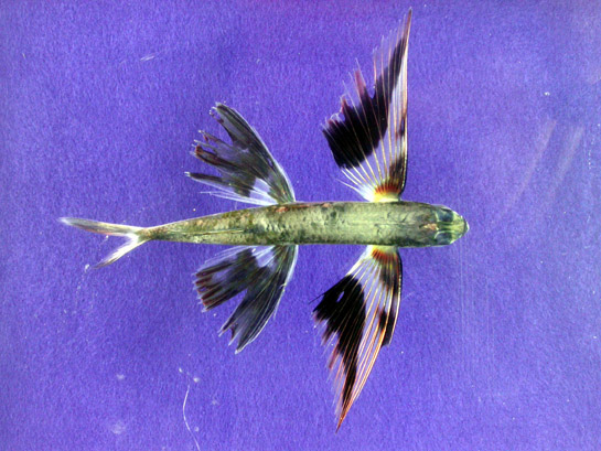 Band-wing flyingfish, Cheilopogon exsiliens.